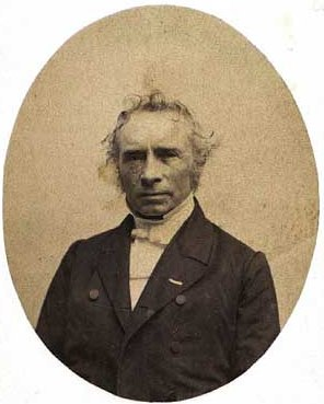 Peter Andreas Fenger (1799-1878), Danish priest